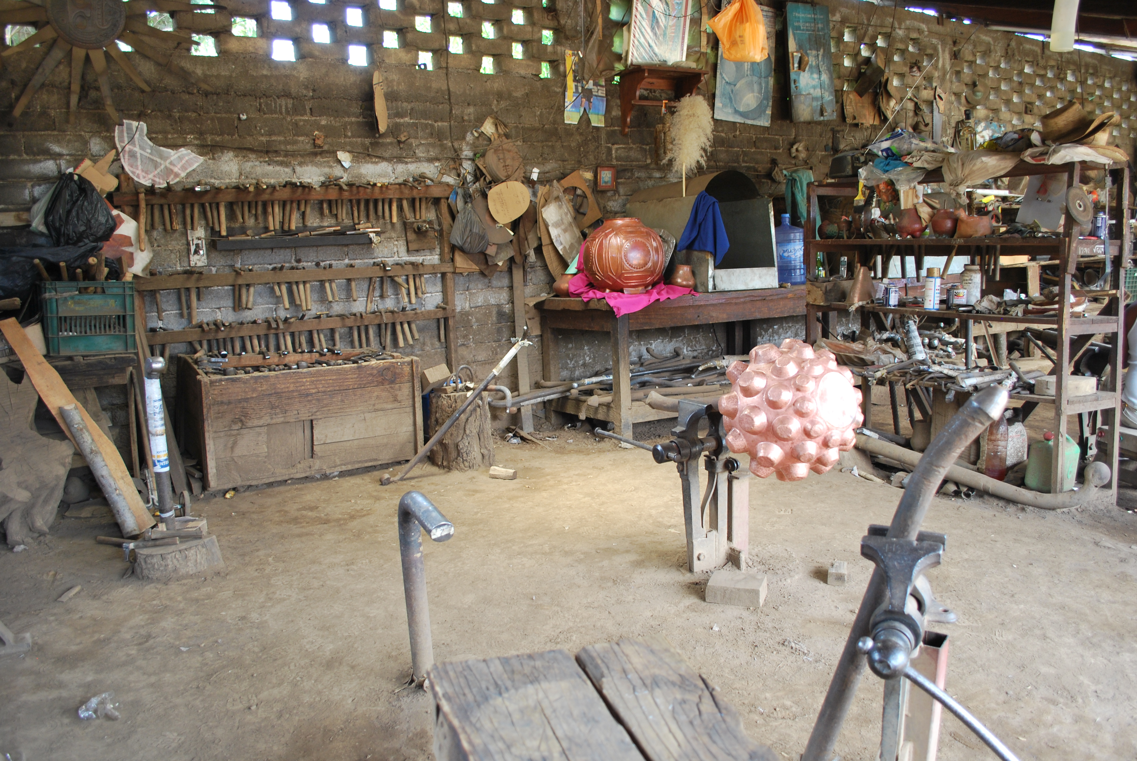 View of part of Abdón Punzo's workshop in Santa Clara del Cobre, Michoacán